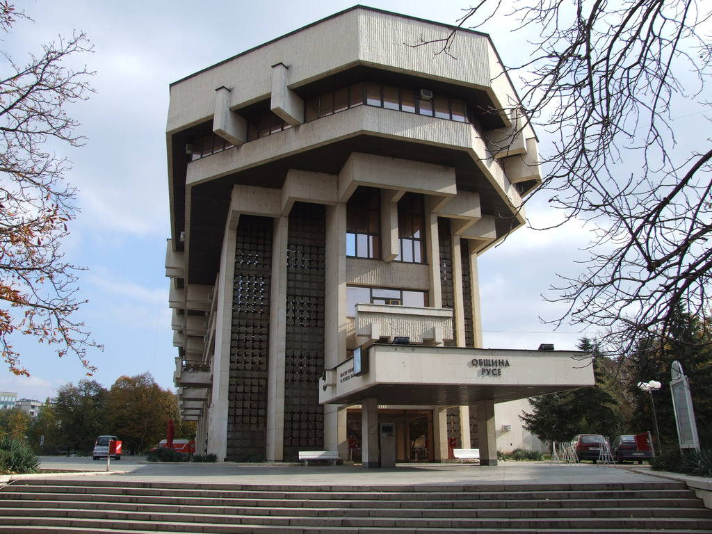 The front of the Municipality building in Rousse, Bulgaria